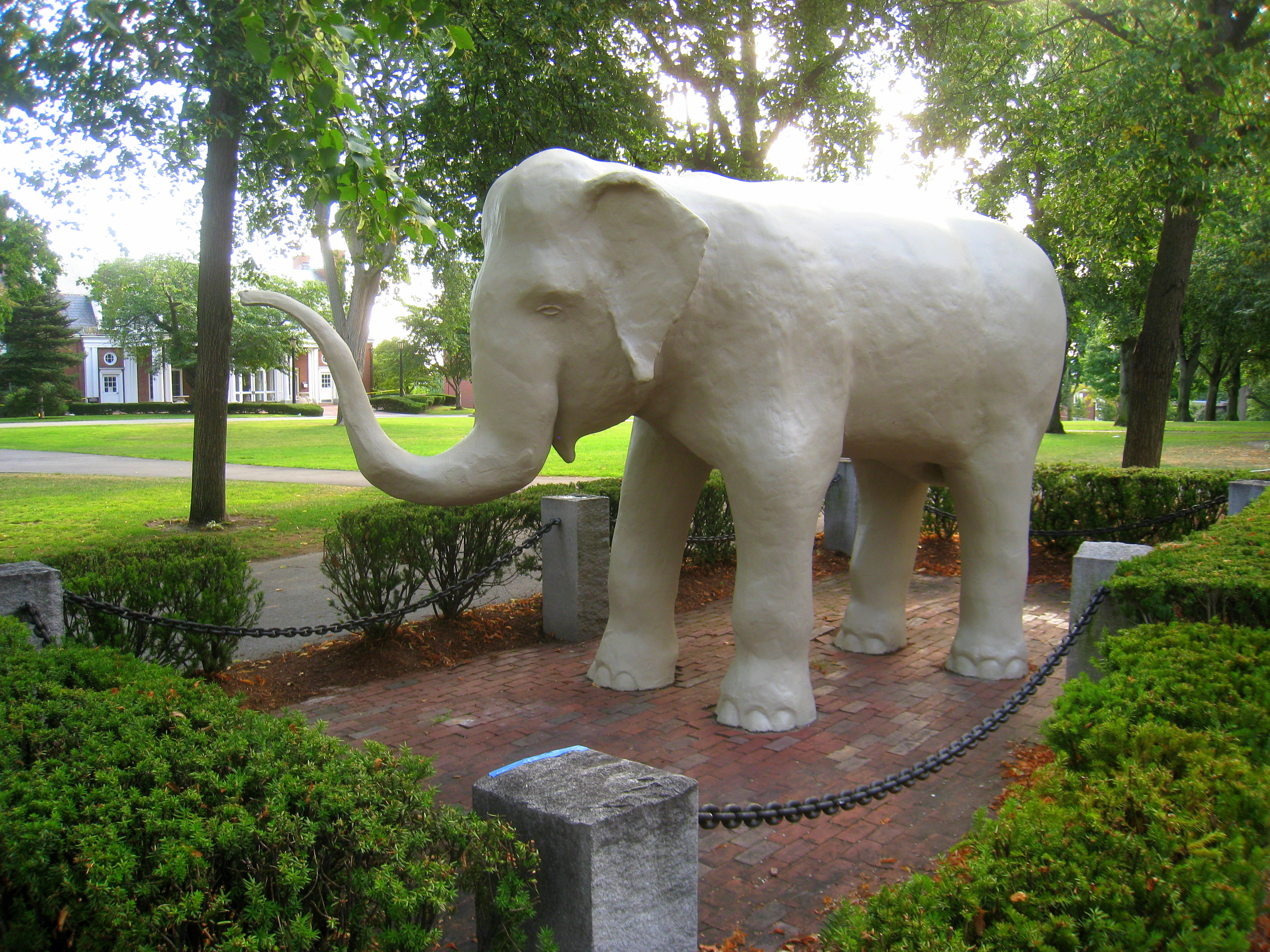 Reminder of Jumbo the Elephant (the original carelessly destroyed), Tufts University, Medford, Massachusetts, USA.